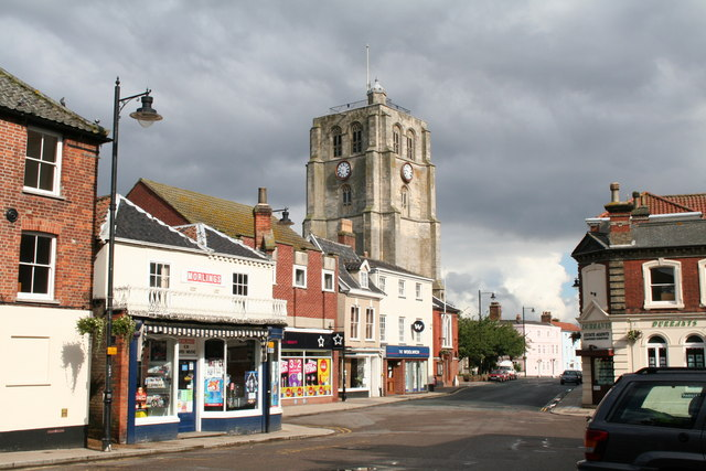 St. Michael's Church, Beccles, Suffolk: South and east faces of the tower. Beccles church is in the centre of the town. It has its tower separated from the main building containing the nave. The tower is a prominent landmark from many miles around.